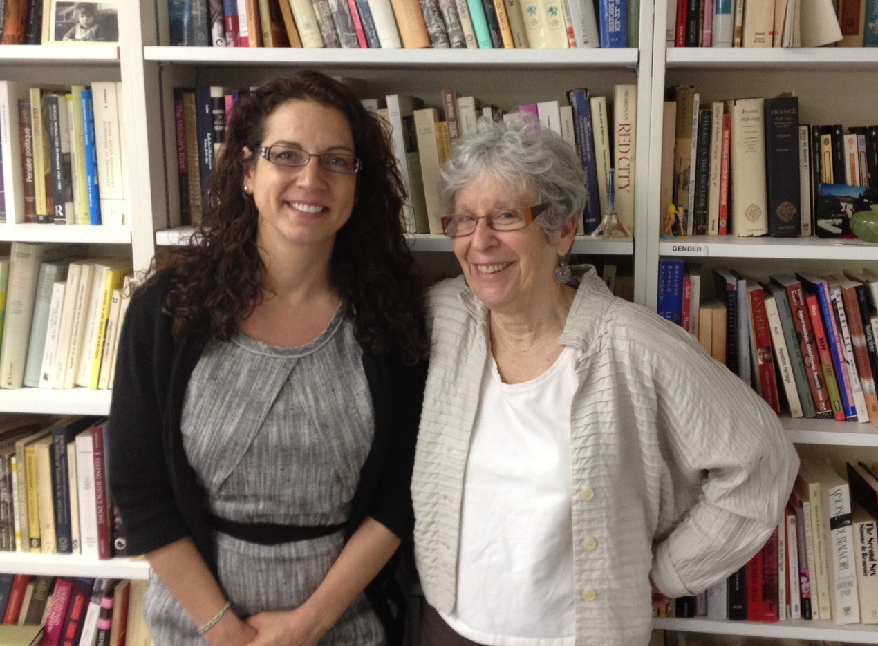 Historian Joan Wallach Scott and ethnographer Kristen Ghodsee